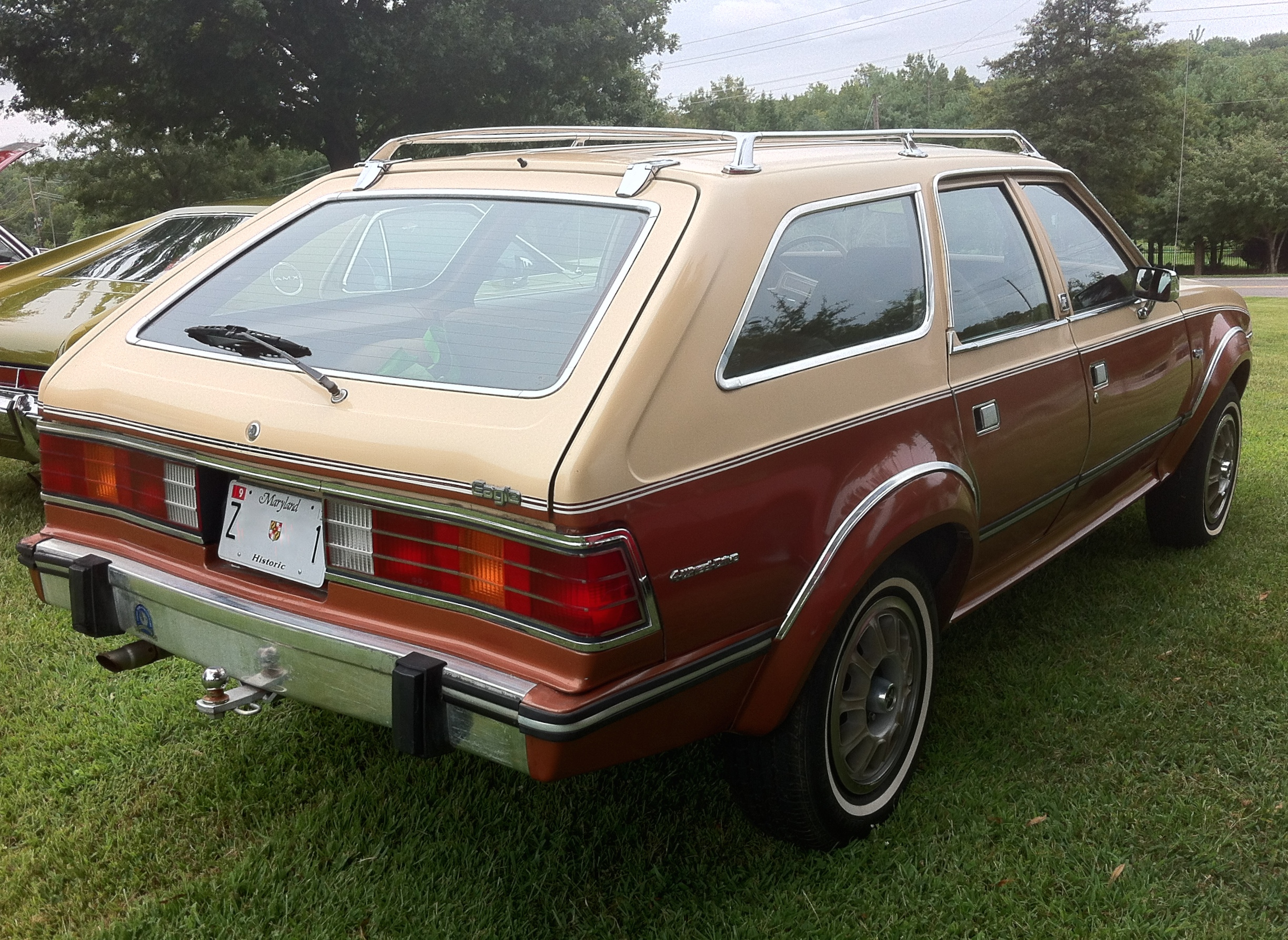 1982 AMC Eagle 4-door station wagon in a two-tone exterior. An innovative automatic all-wheel-drive vehicle made by the American Motors Corporation (AMC)